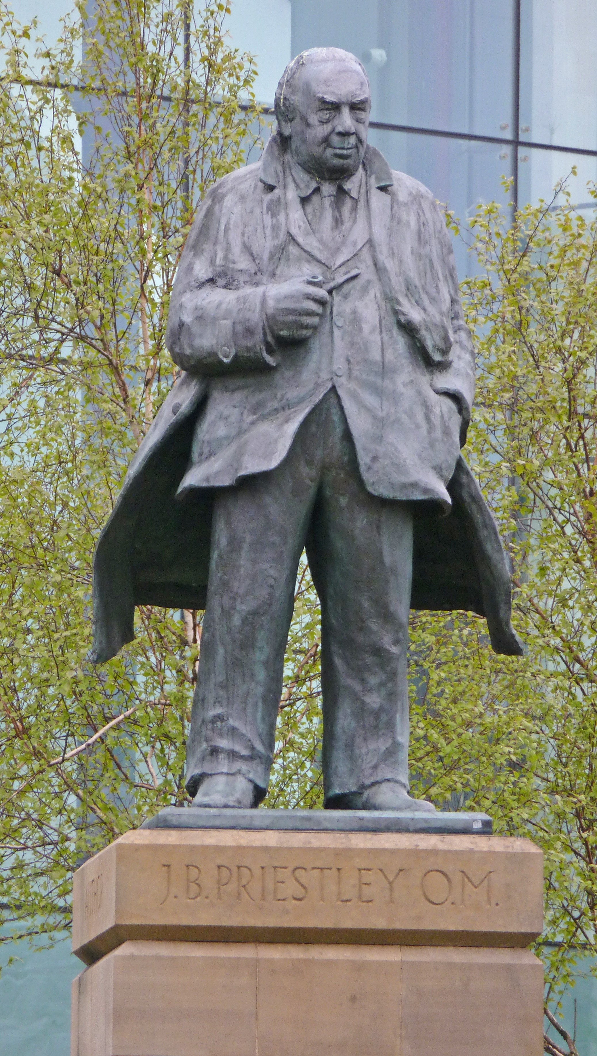 JB Priestley, Bradford